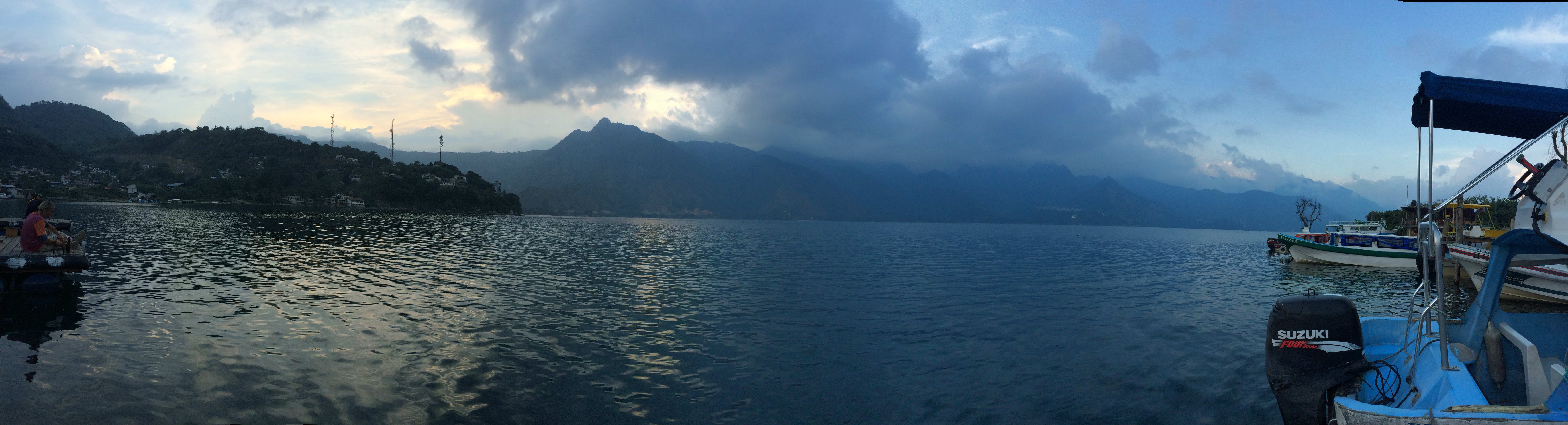 An image of Lake Atitlán from the docks of San Pedro la Laguna